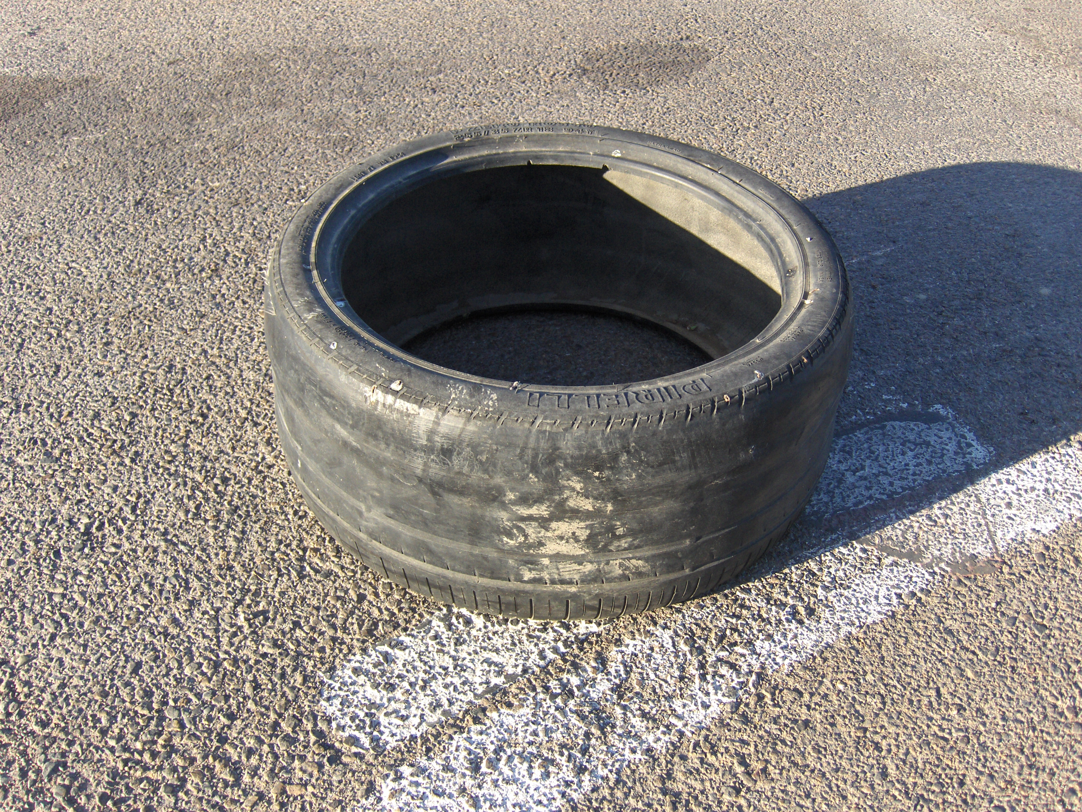 Overworn Pirelli PZERO ROSSO